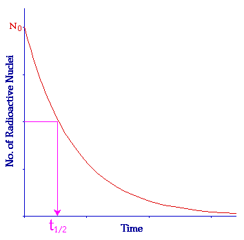 Illustration of the concept of half-life